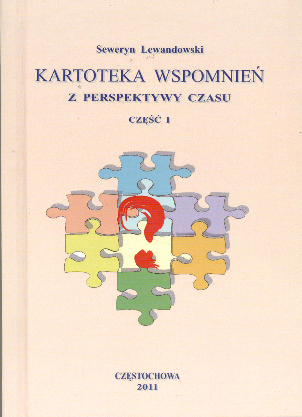 This is the artwork on the cover of the published book